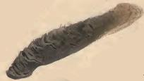 Stainton’s Natural History of the Tineina (1855–1873): Coleophora ledi larval case